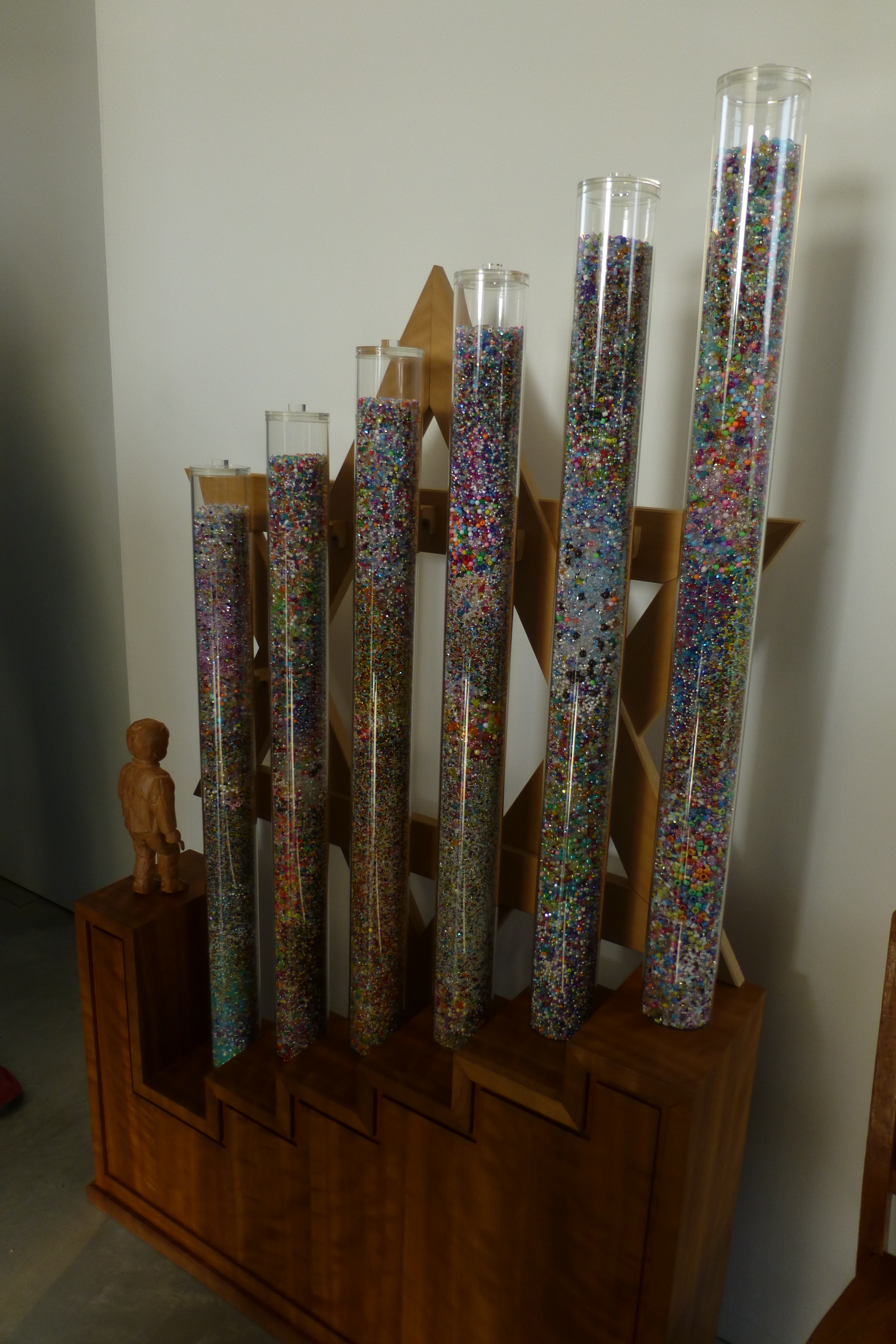 The Holocaust Education Center in Fukuyama, inaugurated on June 17, 1995, is dedicated to the memory of 1.5 million children who perished in the Holocaust. It has the distinction of being the first institution in Japan devoted to Holocaust education.